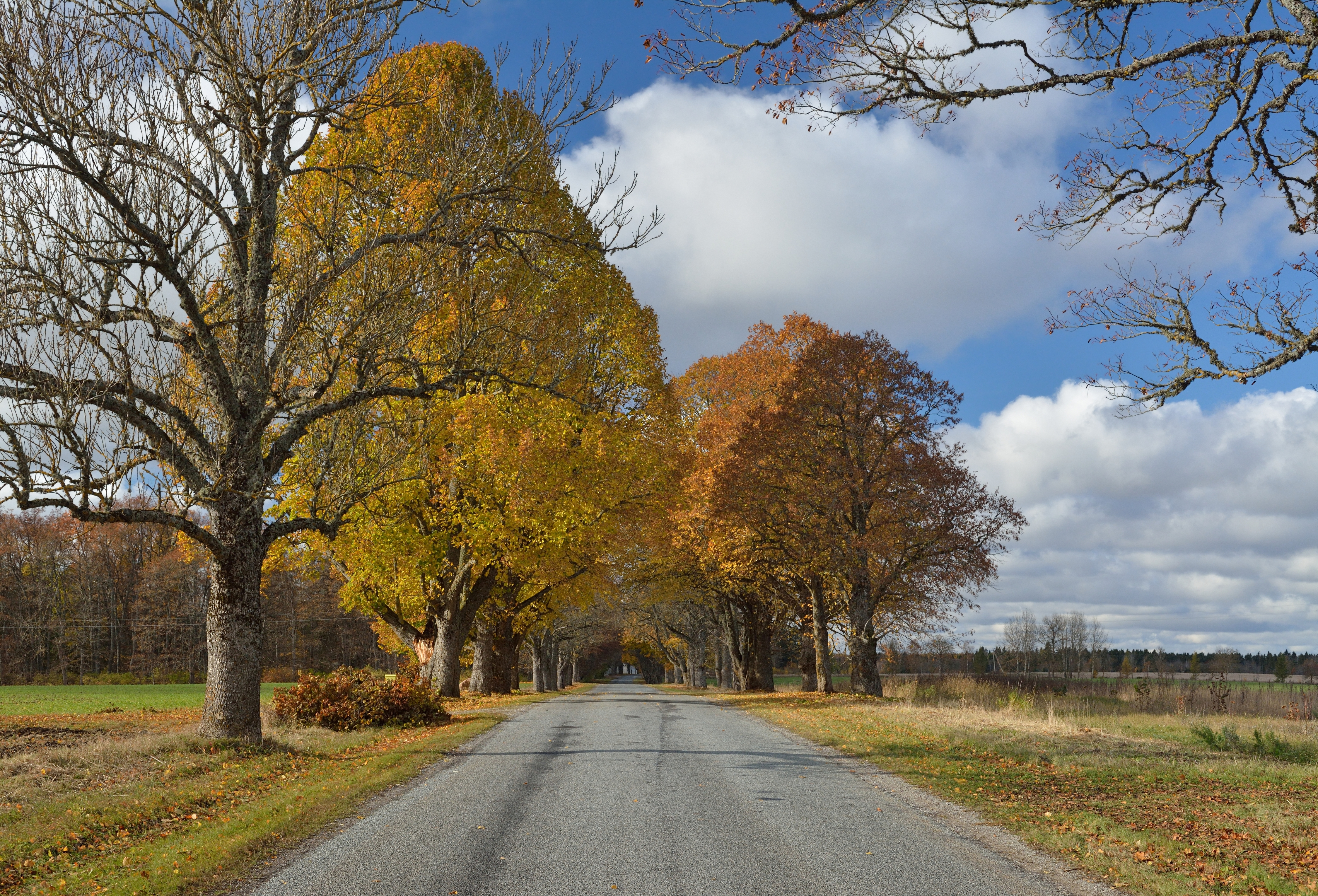 Aaspere manor avenue